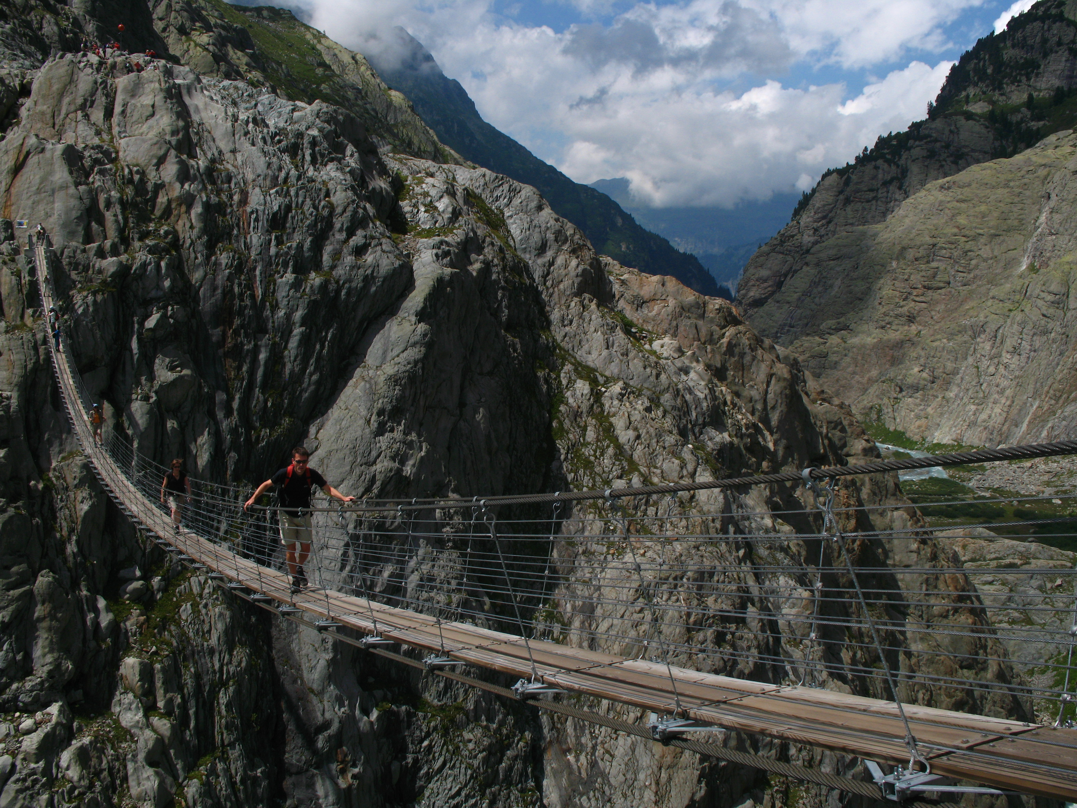 View of the Trift Bridge, Gadmen, Switzerland